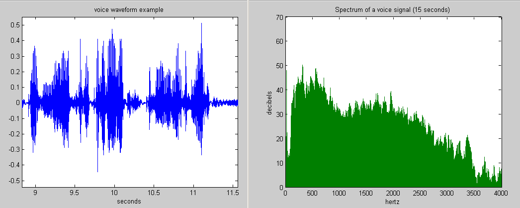 I created this image myself using Matlab tools. This graphic was created with MATLAB.